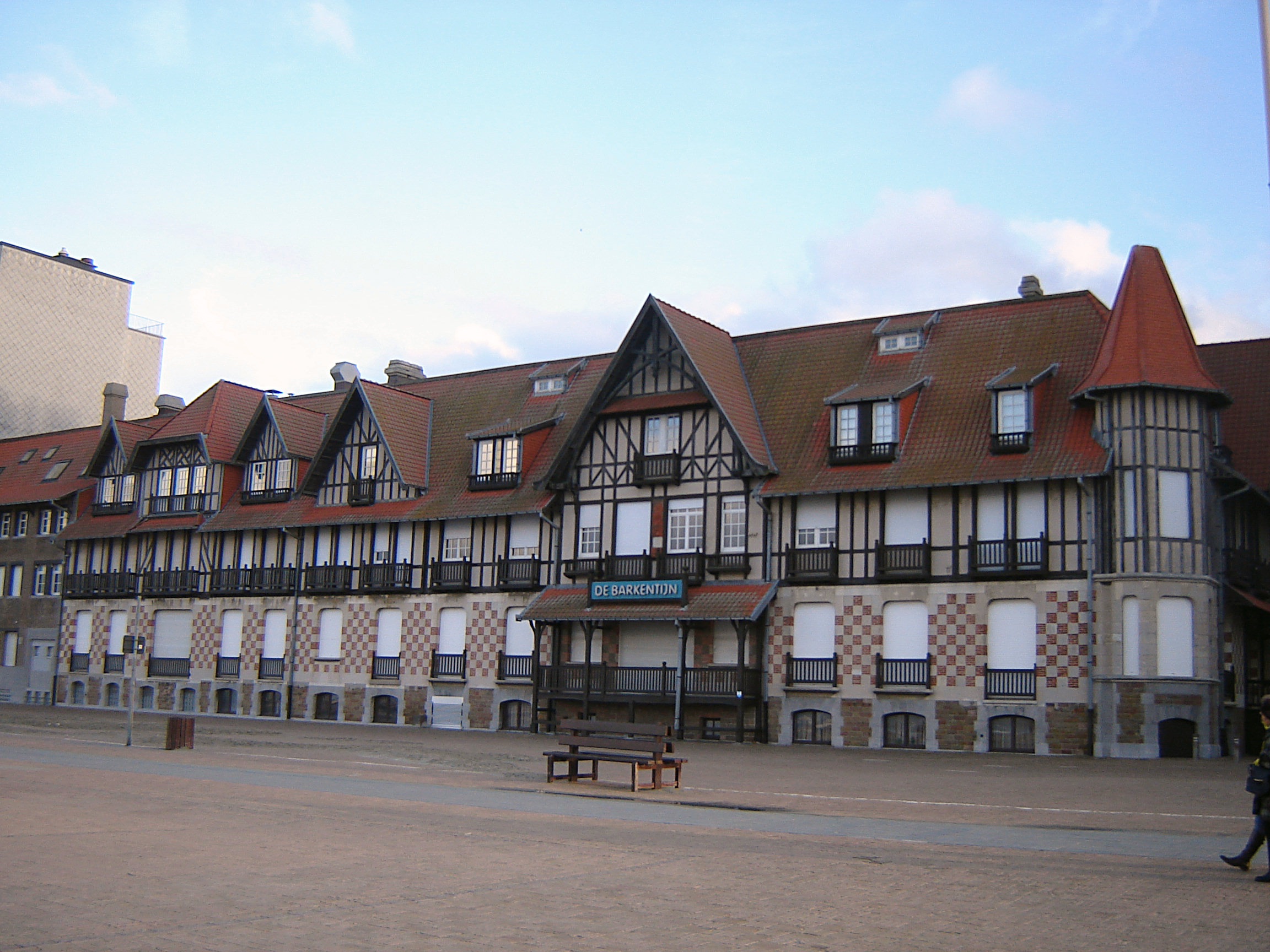 Villa Crombez. Known as holiday home "Kindervreugde" since 1949, nowadays "De Barkentijn". Located at the seawall promenade of Nieuwpoort-Bad. Nieuwpoort-Bad. Nieuwpoort, West Flanders, Belgium